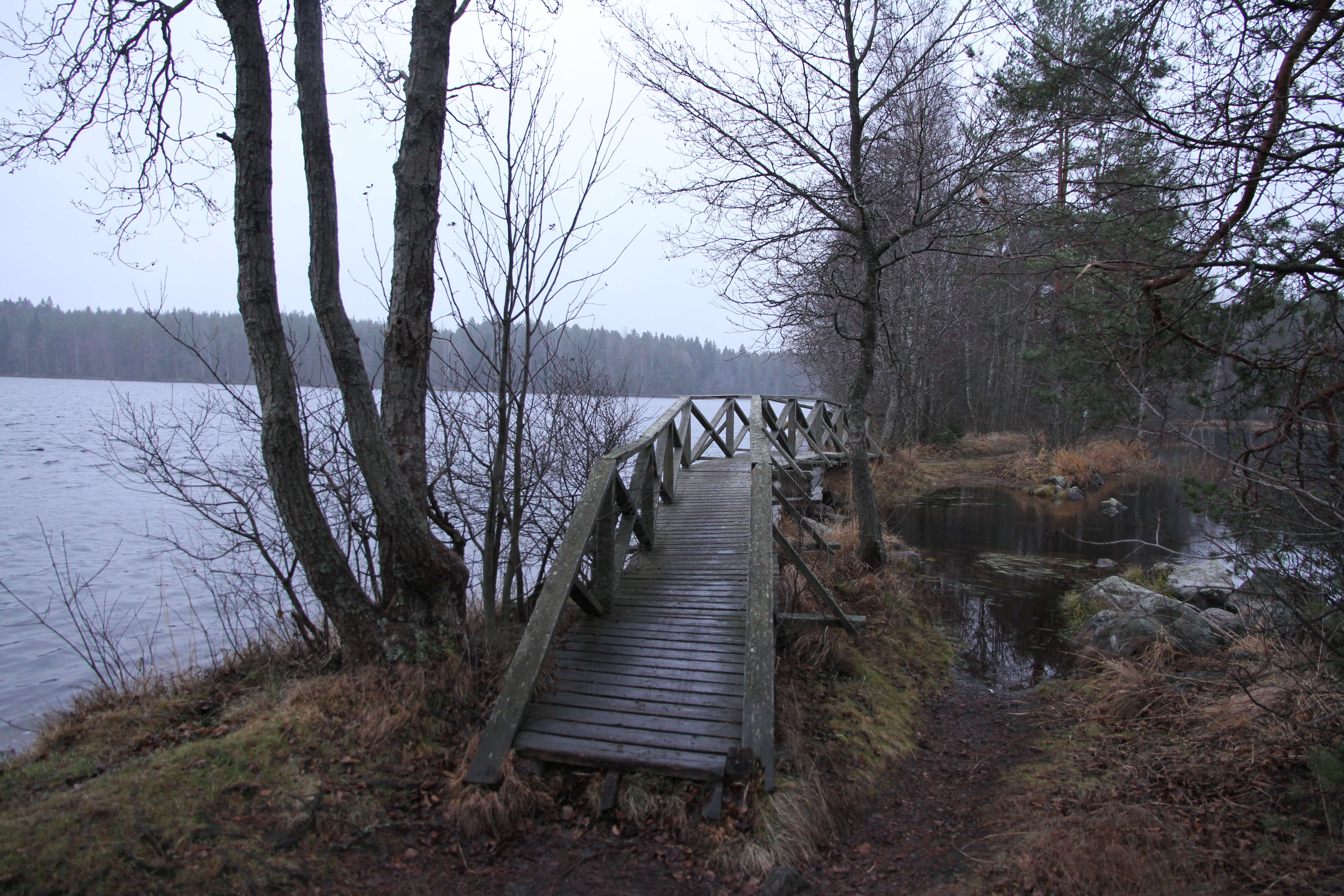 Liesjärvi National Park, Finland.